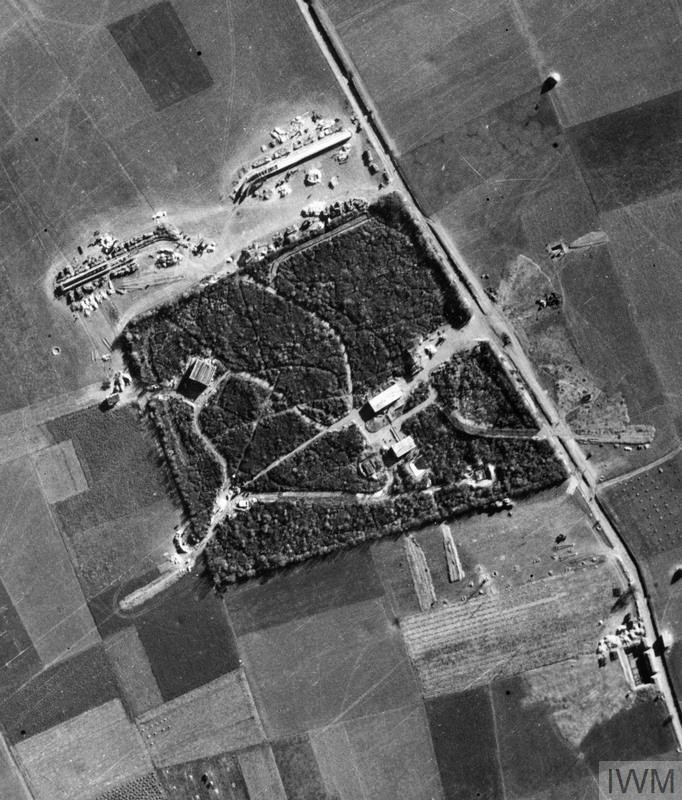 Royal Air Force Bomber Command, 1942-1945 Vertical photographic-reconnaissance aerial of a flying-bomb launch site under construction at Bois Carre, near Yvrench, France. This photograph confirmed intelligence reports that flying-bomb sites were being constructed in the Pas-de-Calais area.